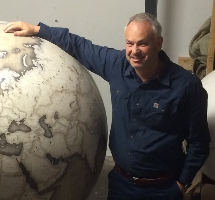 Tim Marshall (a British journalist and author) at Bellerby & Co, Globemakers in front of The Churchill Globe.